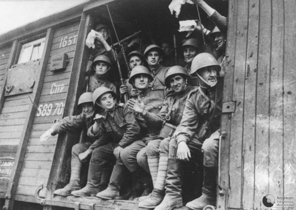 Polish 1st Infantry Division, formed in Russia, leaves for the front in summer 1943